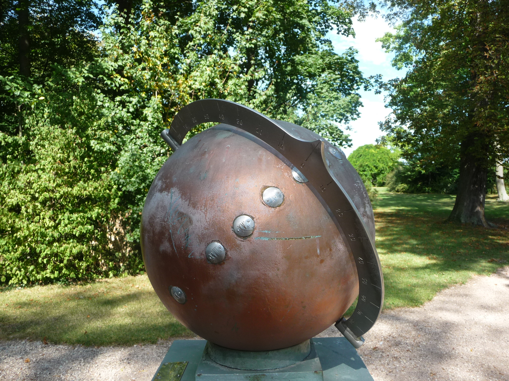 Dirmstein in the Bad Dürkheim district in Rhineland-Palatinate, Germany